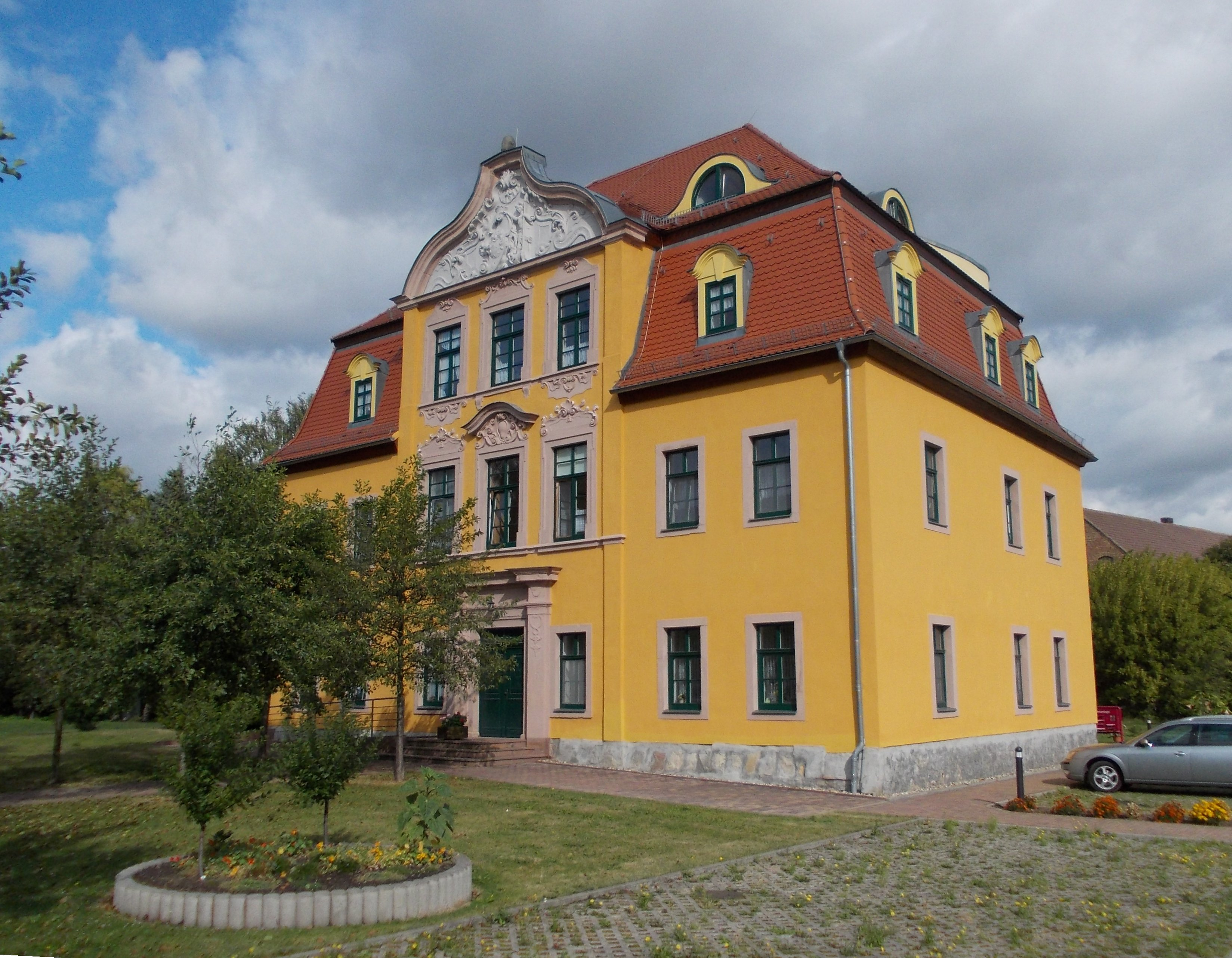 Schafstädt manor house (Bad Lauchstädt, district of Saalekreis, Saxony-Anhalt)